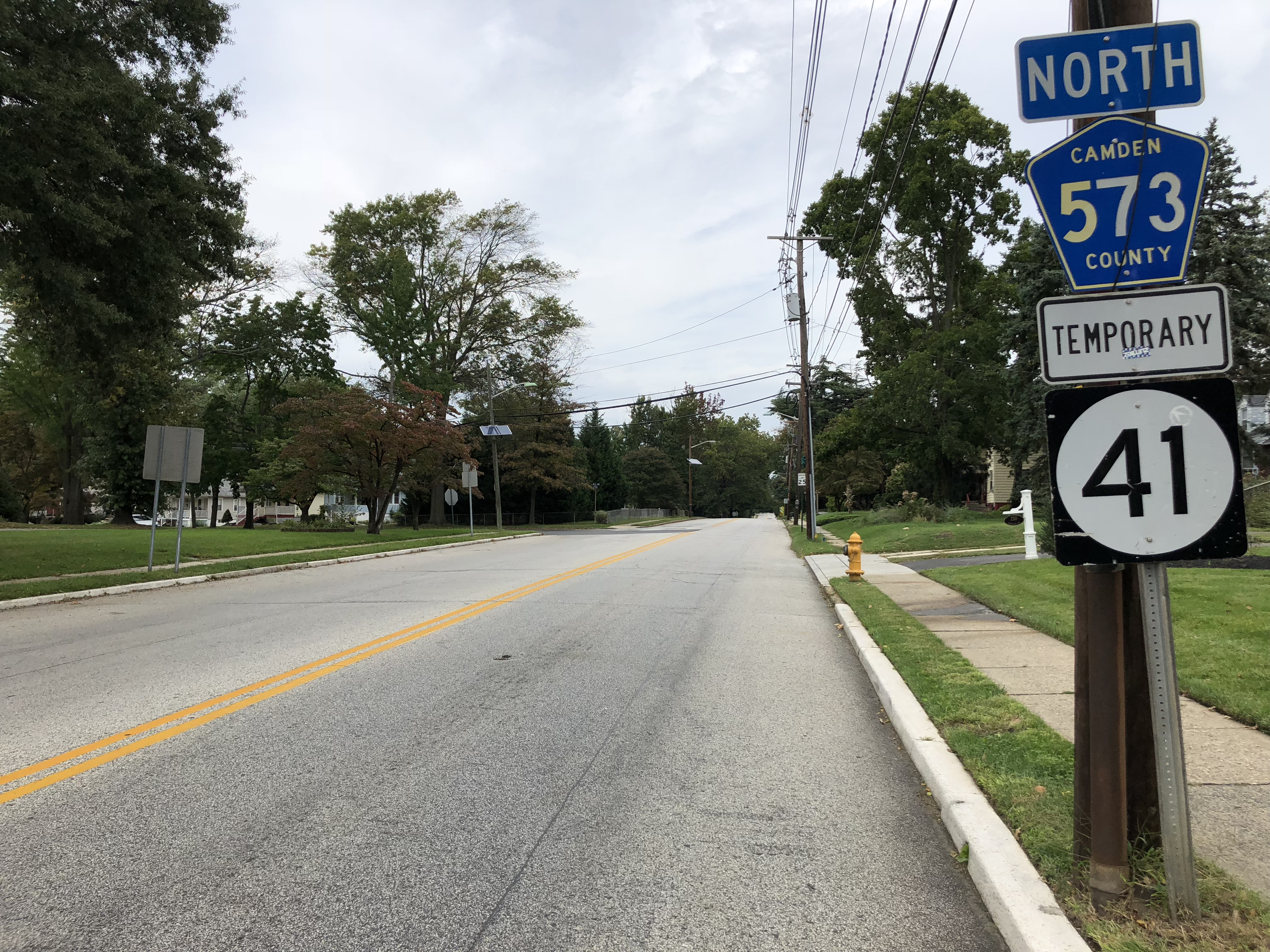 View north along New Jersey State Route 41 and Camden County Route 573 (Highland Avenue) just north of U.S. Route 30 (White Horse Pike) on the border of Haddon Heights and Barrington in Camden County, New Jersey